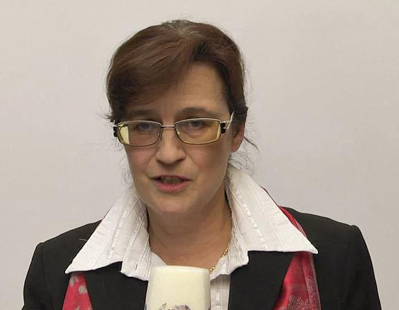 Video Project in the European Parliament 2014